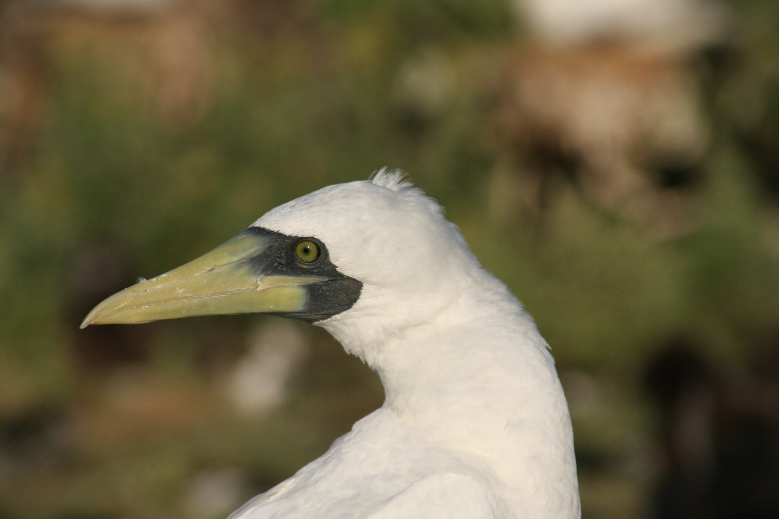 Masked Booby Sula dactylatra